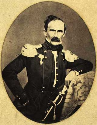 Elias Carl Frederik Ahlefeldt-Laurvig (1816-1864), Danish Count and army officer